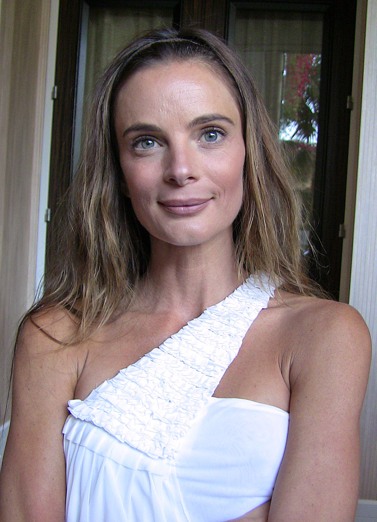 Actress Gabrielle Anwar at 23rd Genesis Awards - Beverly Hills, California.